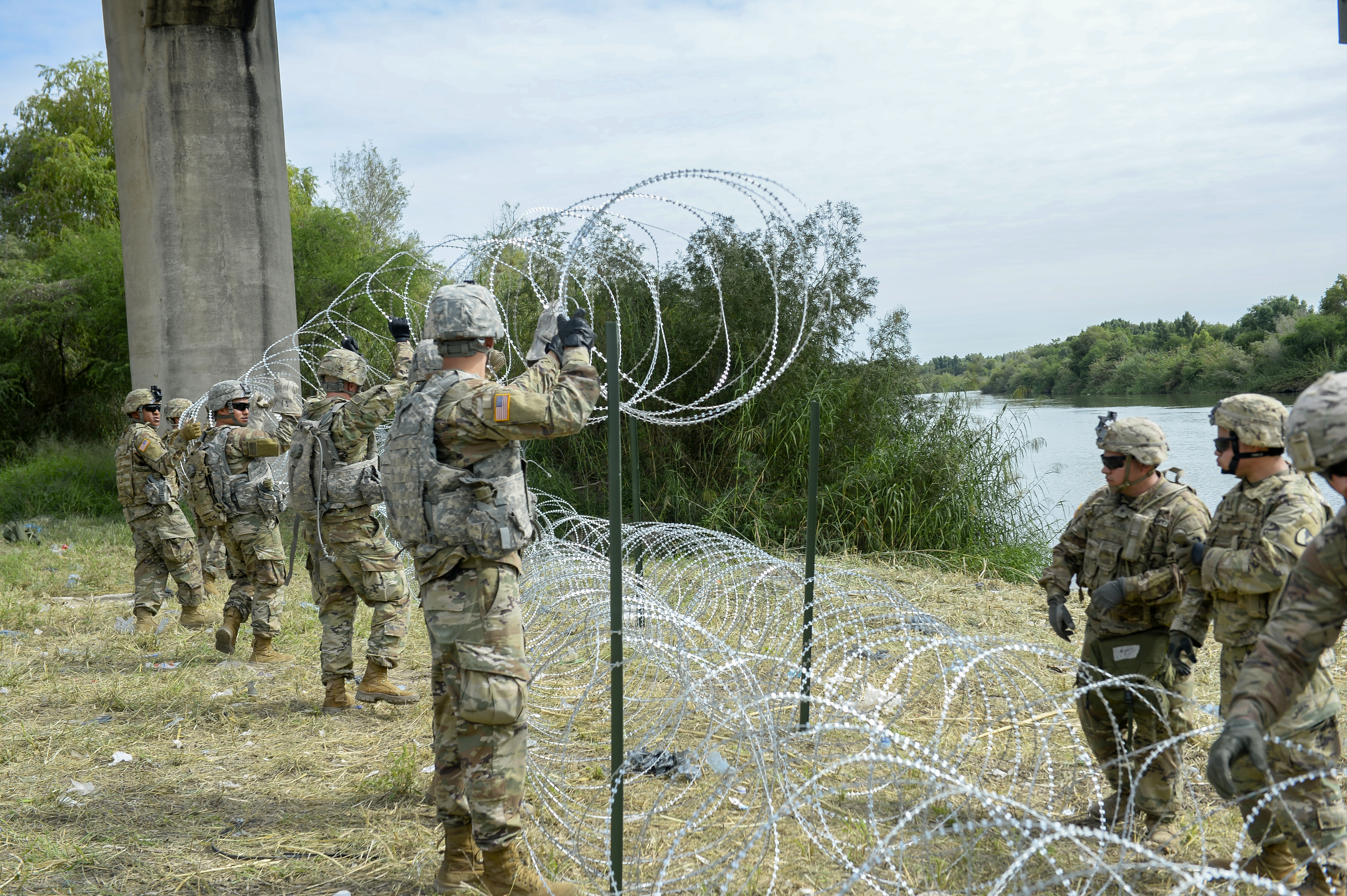 Soldiers from the 97th Military Police Brigade, and 41st Engineering Company, Fort Riley, KS., work along side with U.S. Customs and Border Protection at the Hidalgo, TX., port of entry, applying 300 meters of concertina wire along the Mexico border in support of Operation FAITHFUL PATRIOT. Soldiers will provide a range of support including planning assistance, engineering support, equipment and resources to assist the Department of Homeland Security along the southwest border.